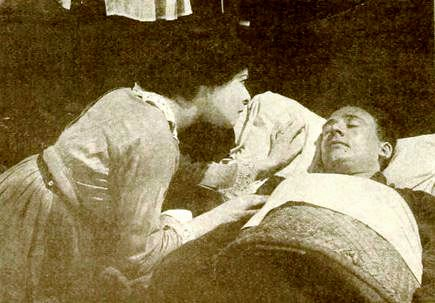 Still from the American film Out of the Fog (1919) with Alla Nazimova and Charles Bryant, on page 476 o the January 25, 1919 Moving Picture World.